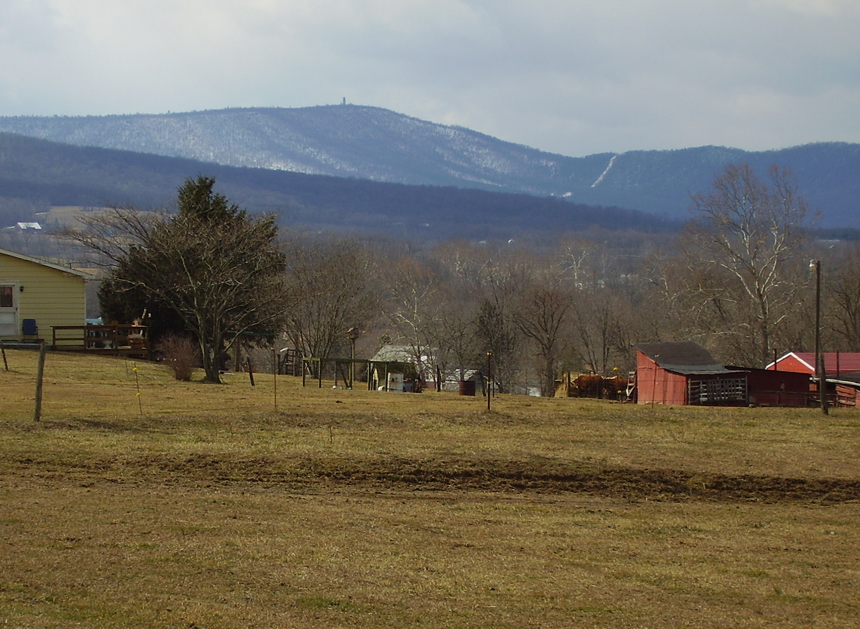 Cross Mountain viewed from Shimpstown, Pennsylvania. by: Joe Calzarette